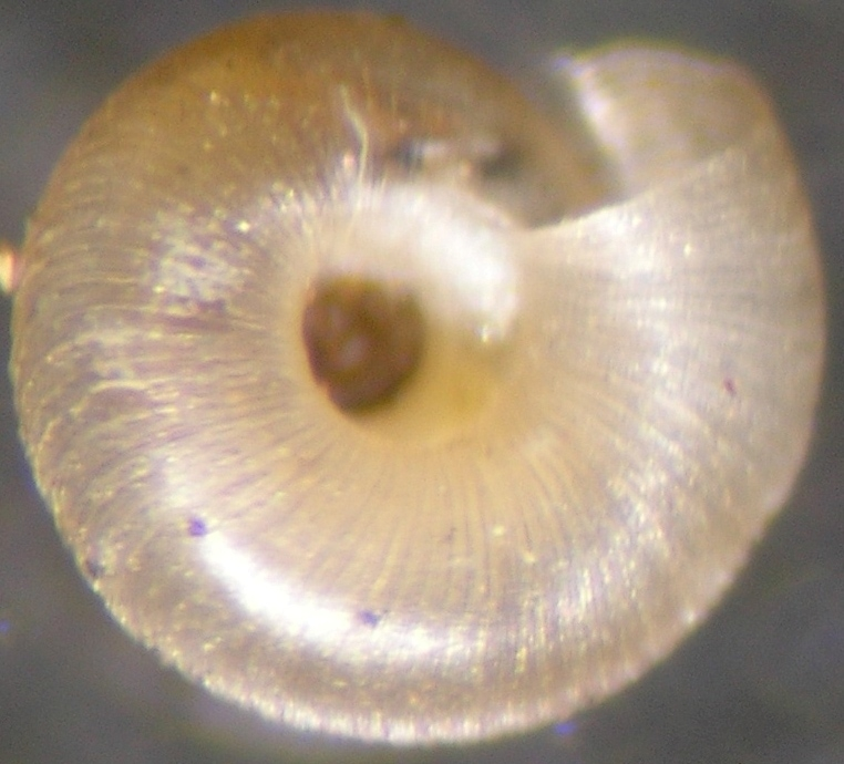 Basal view of Punctum minutissimum shell